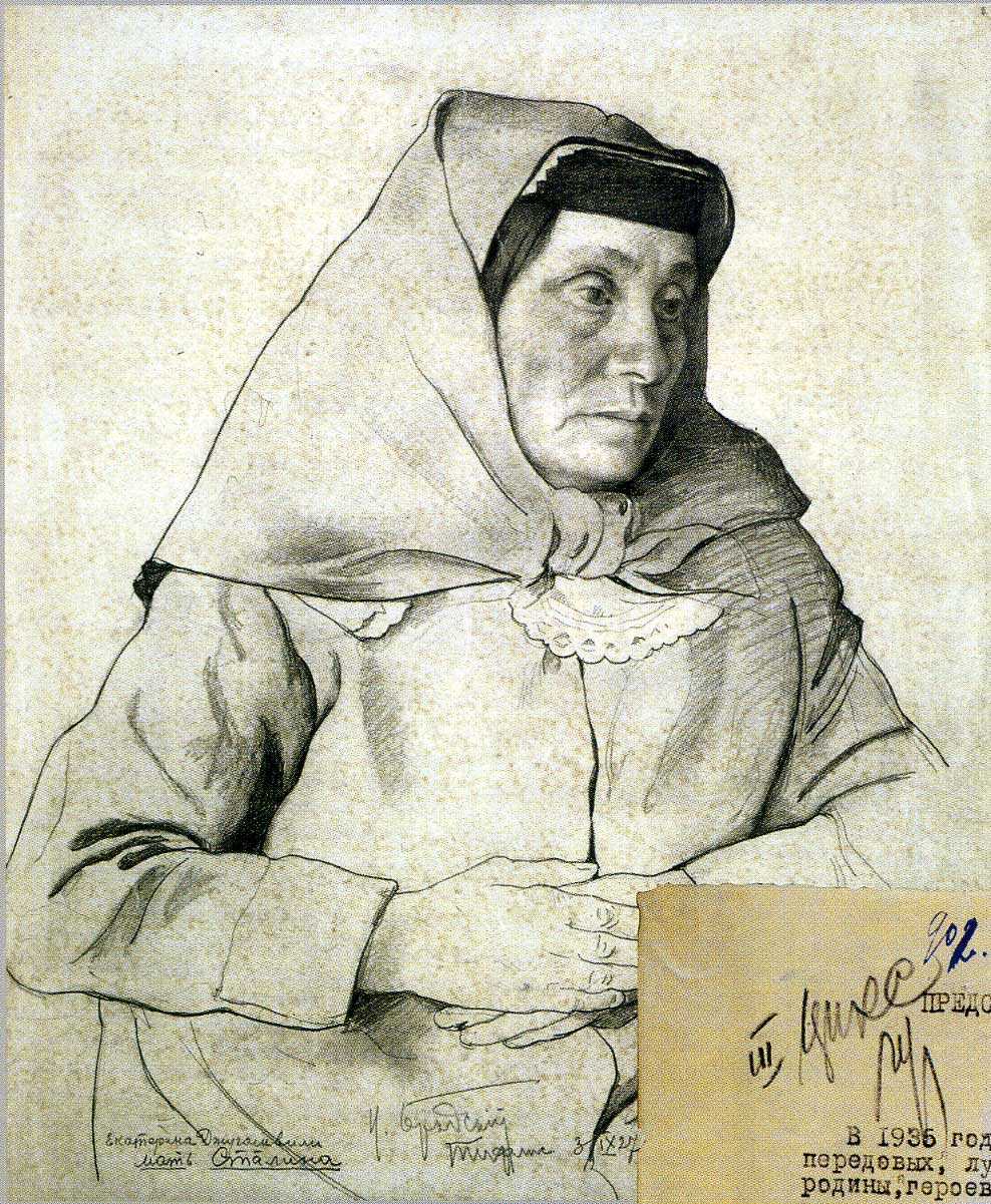 Portrait of Yekaterina Geladze.